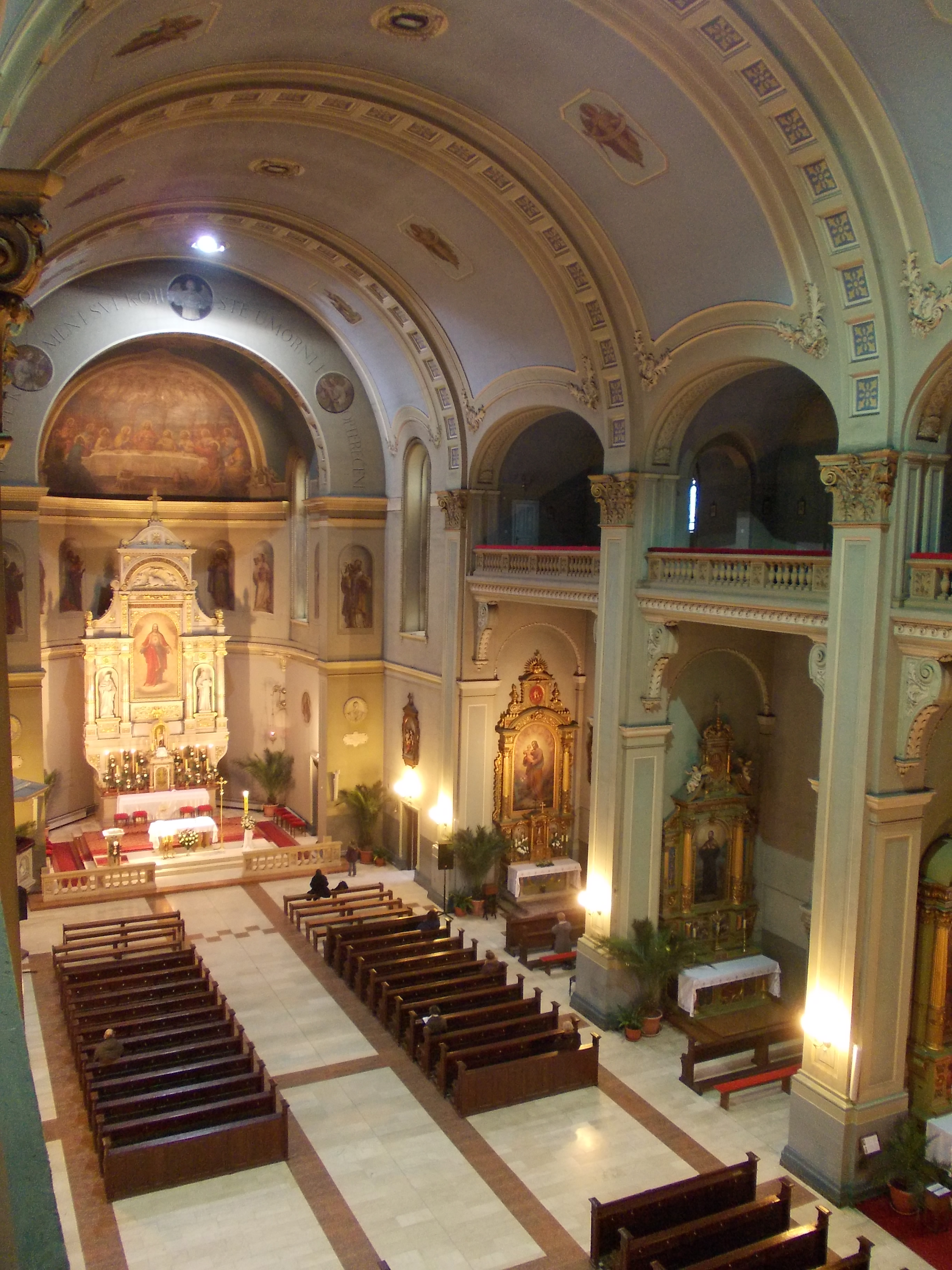 Sacred Heart Basilica, Zagreb